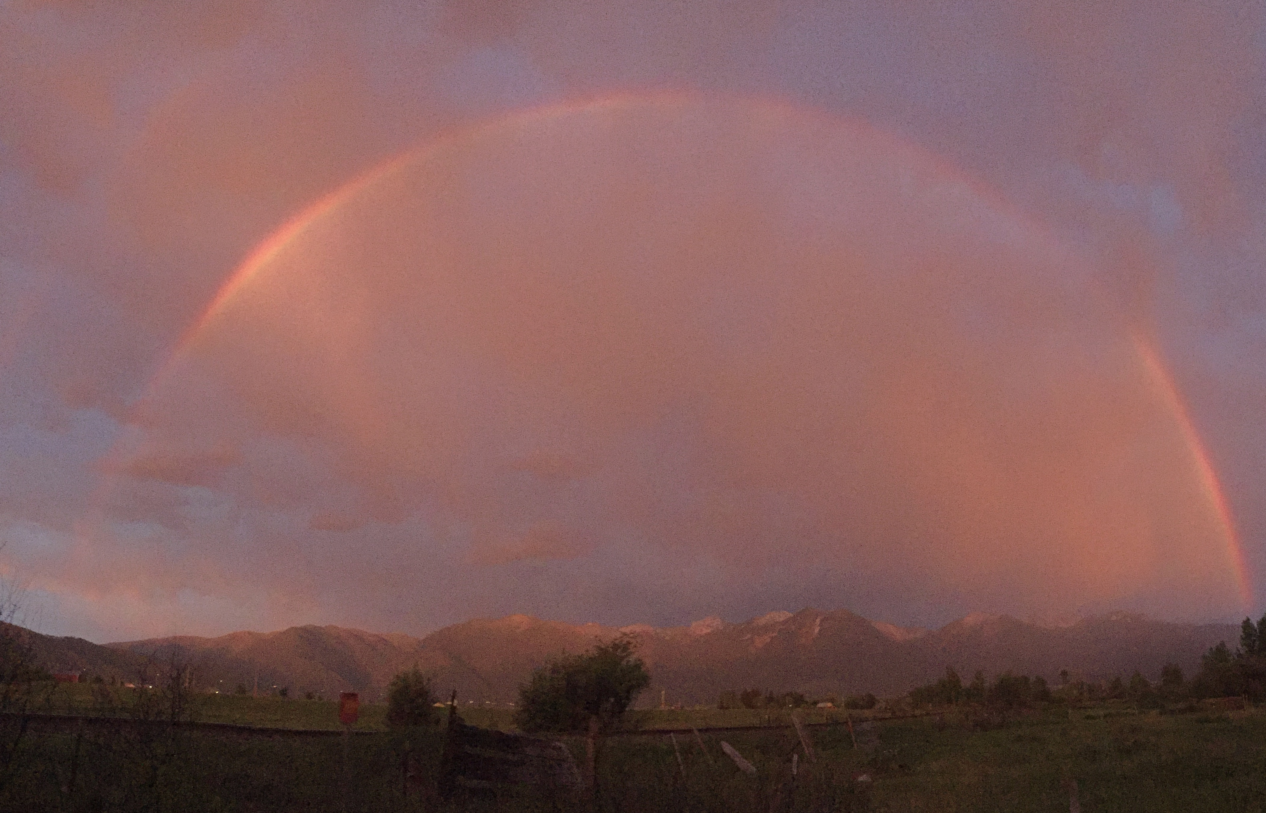 Full rainbow over McLeod Peak looking east across Jocko Valley from Arlee, Montana, USA